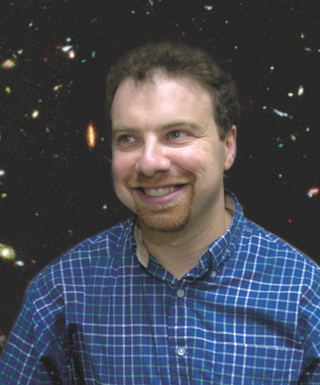 smithsonian